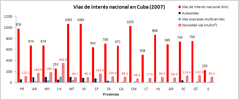 Highways of national interest in Cuba